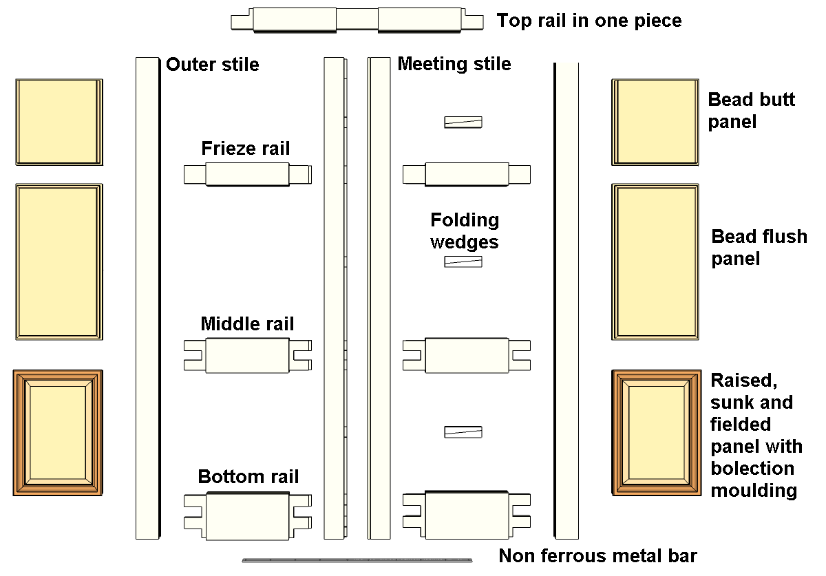 Detail of an exploded double margin door for the article on same.